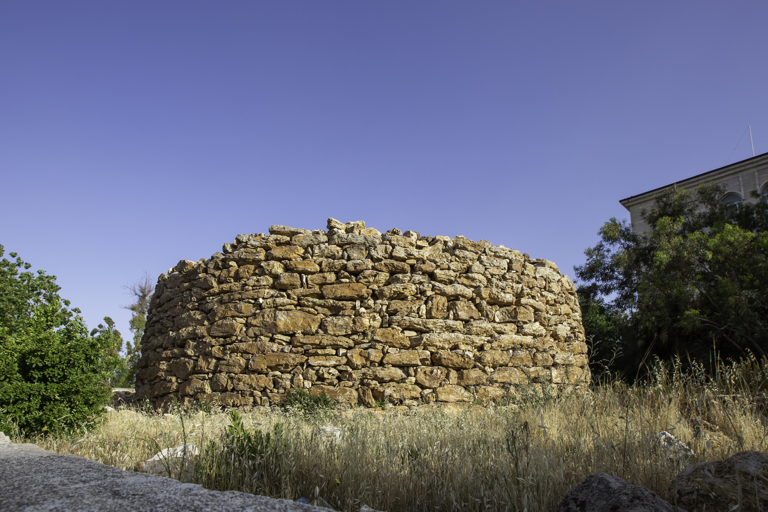 Rujm Al-Malfouf Watch Tower